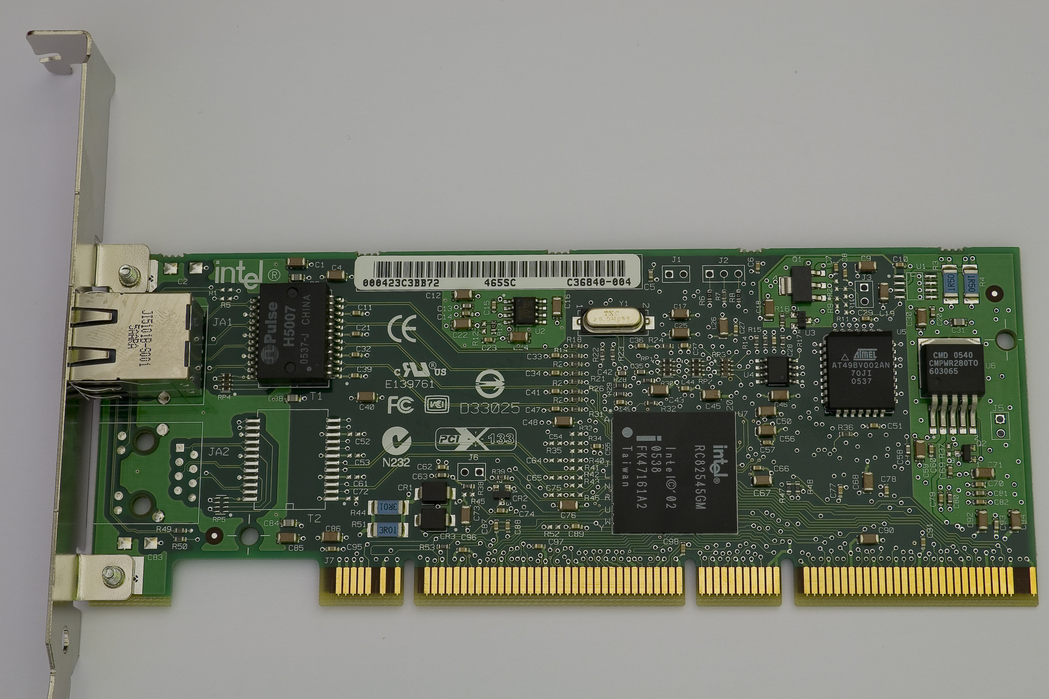 Intel PRO/1000 MT Server Adapter